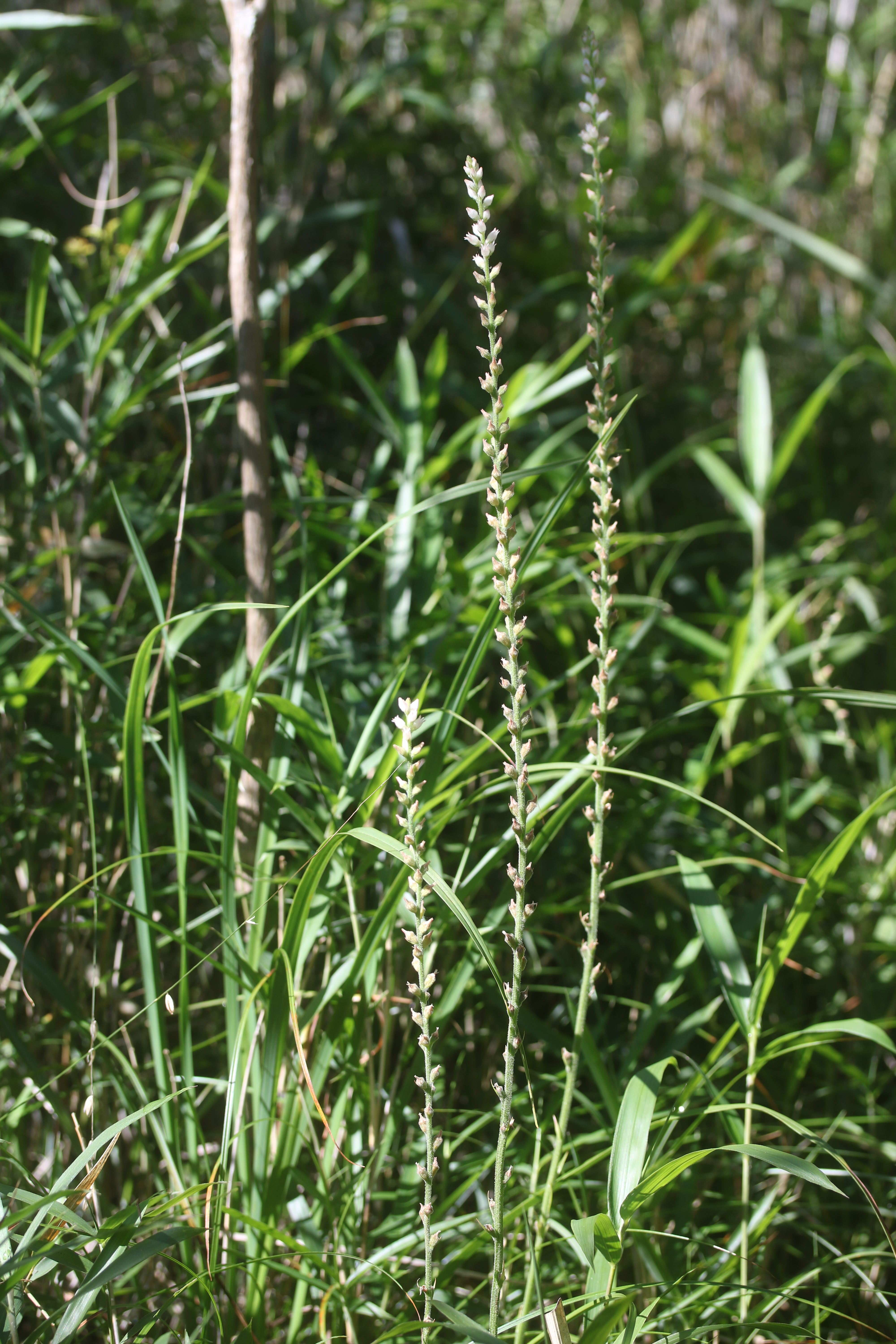 Aletris spicata in Yumihari Mountains, Shinshiro, Aichi Prefecture, Japan. Canon EOS Kiss X8i